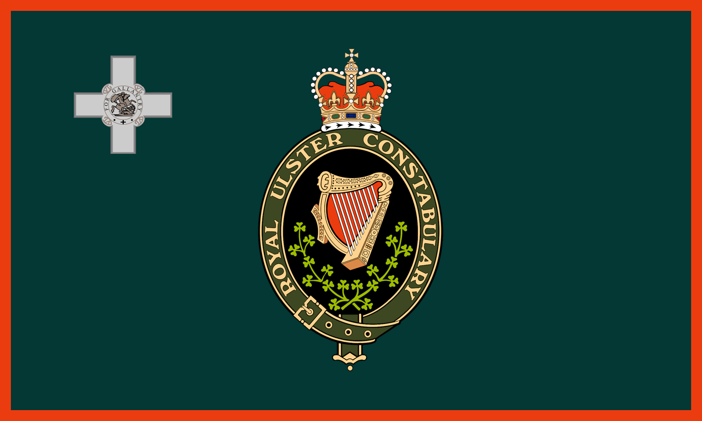 This flag represents the RUC Force Standard that was introduced in in the Diamond Jubilee, first unveiled on 2nd June 1982. It was approved by Royal Warrant and registered by the Garter King of Arms. Source: "Arresting Memories" by Sinclair and Scully.